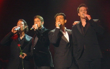 Il Divo Photo taken in concert (18 January 2007)